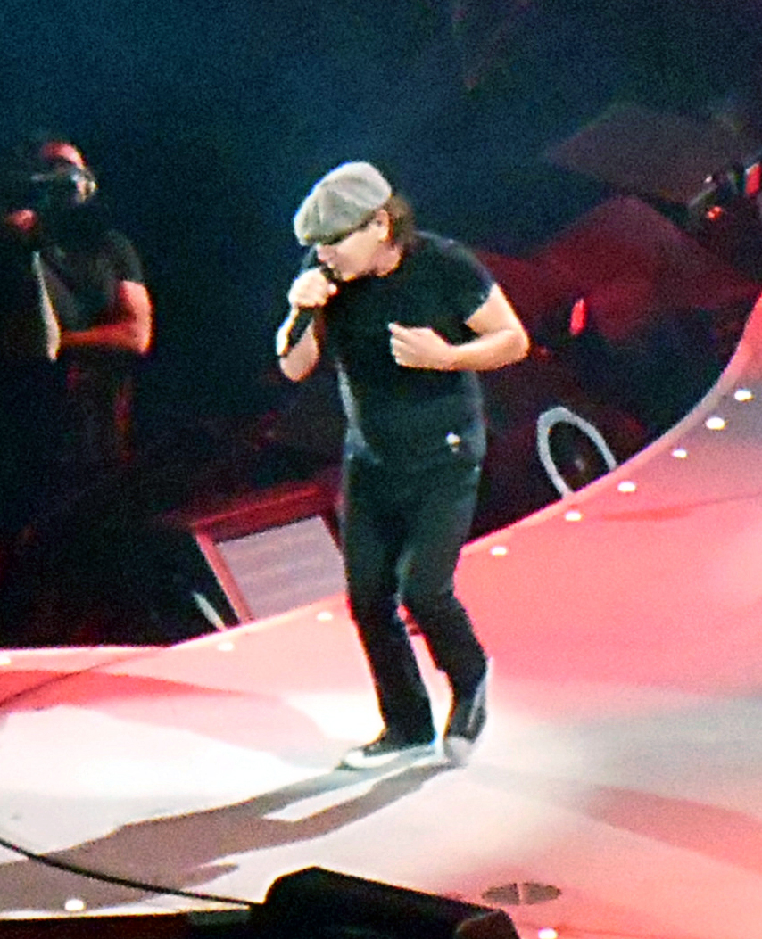 Brian Johnson performing with AC/DC at the Tacoma Dome in Tacoma, WA on February 2nd, 2016.